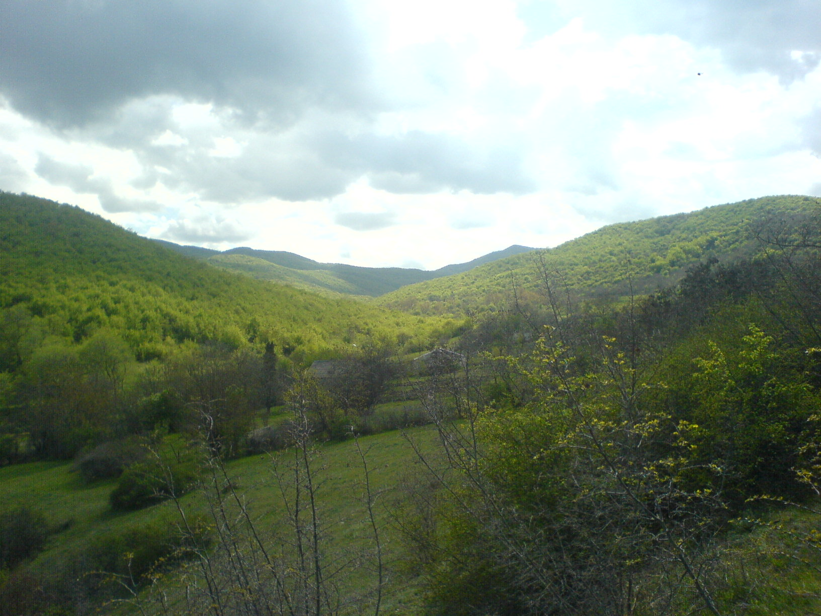 Village khirsa (Qiziq'i) and Gombori, Kakheti Georgia